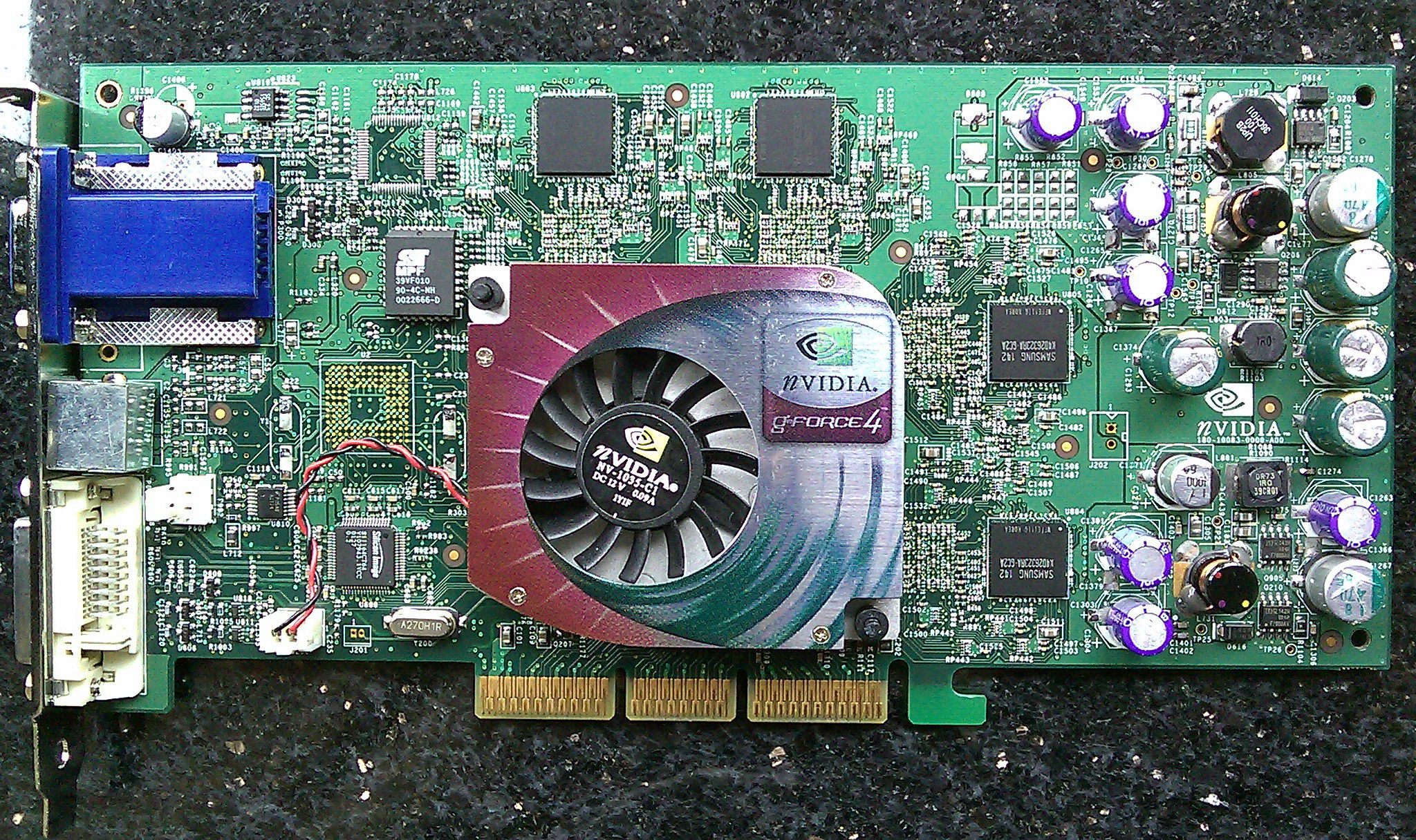 NVIDIA Quadro4 900 XGL Engineering Sample A00